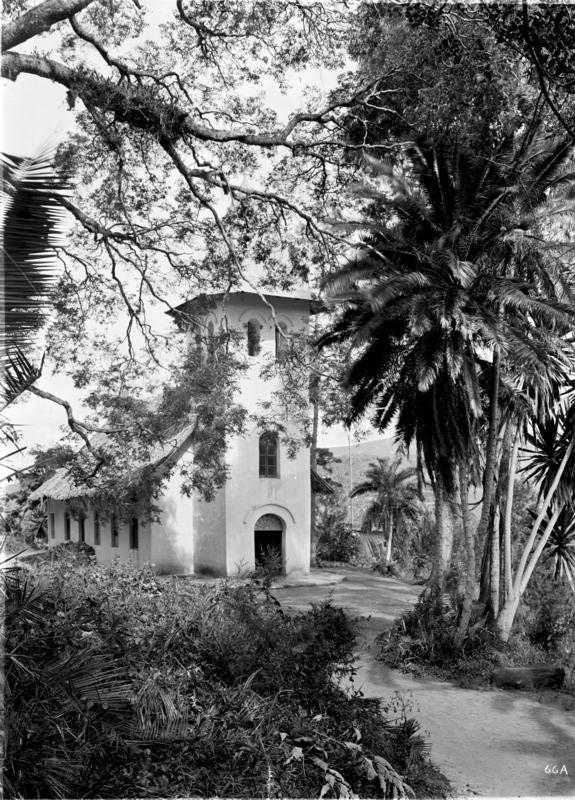 Station Mlalo, Missionskirche